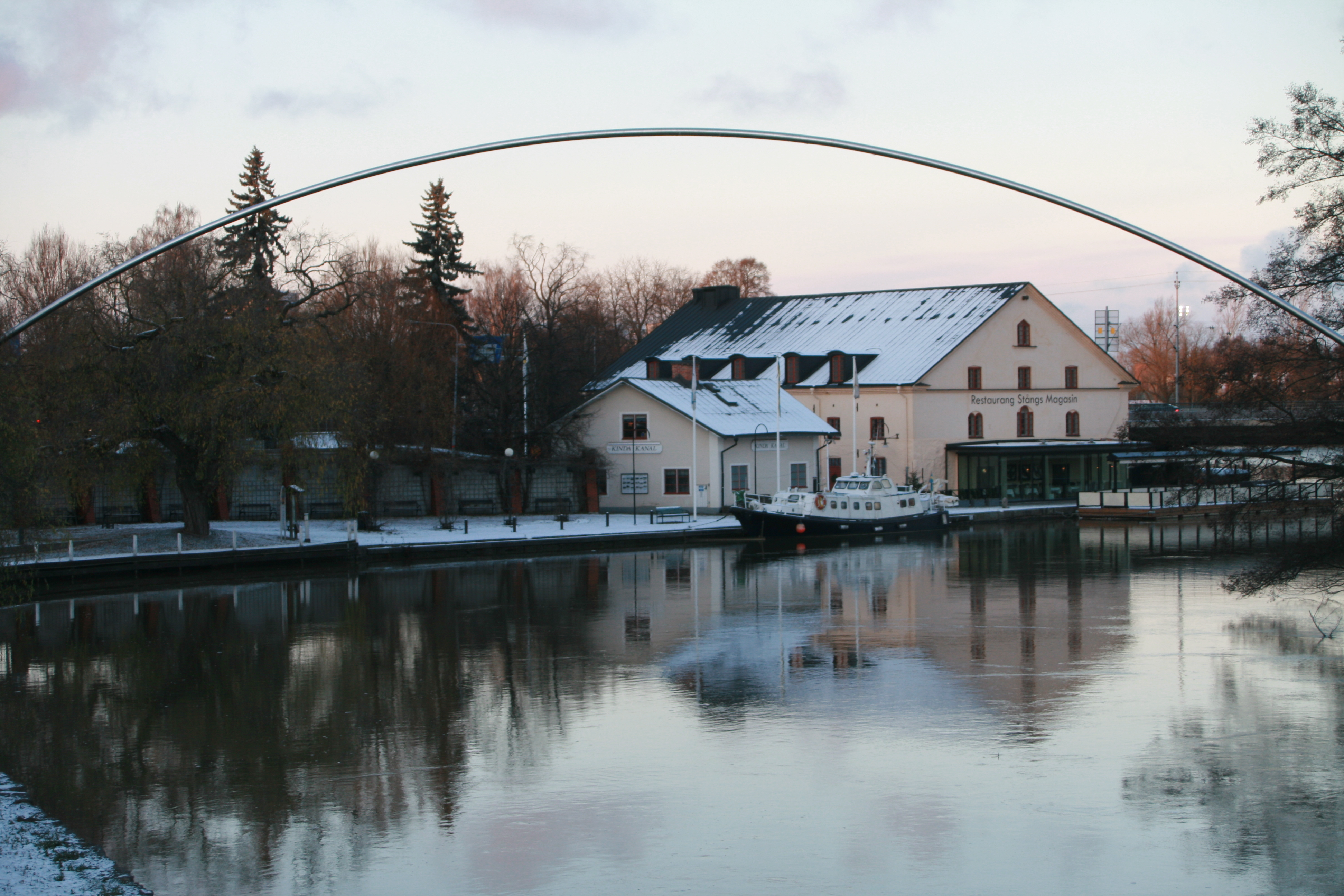 River Stångån in downtown Linköping, seen from Stångebro bridge facing north. The artwork "Drömmarnas båge" (arc of dreams). Stångs magasin. Kinda Canal office.